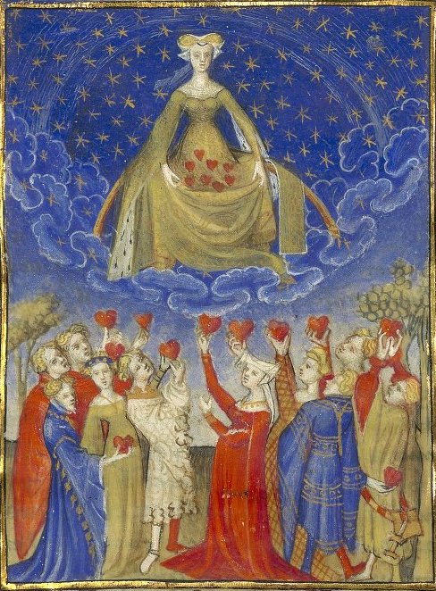 Miniature from C de Pisan Othea's Epistle showing Venus receiving hearts (BnF Fr 606 f 6r).